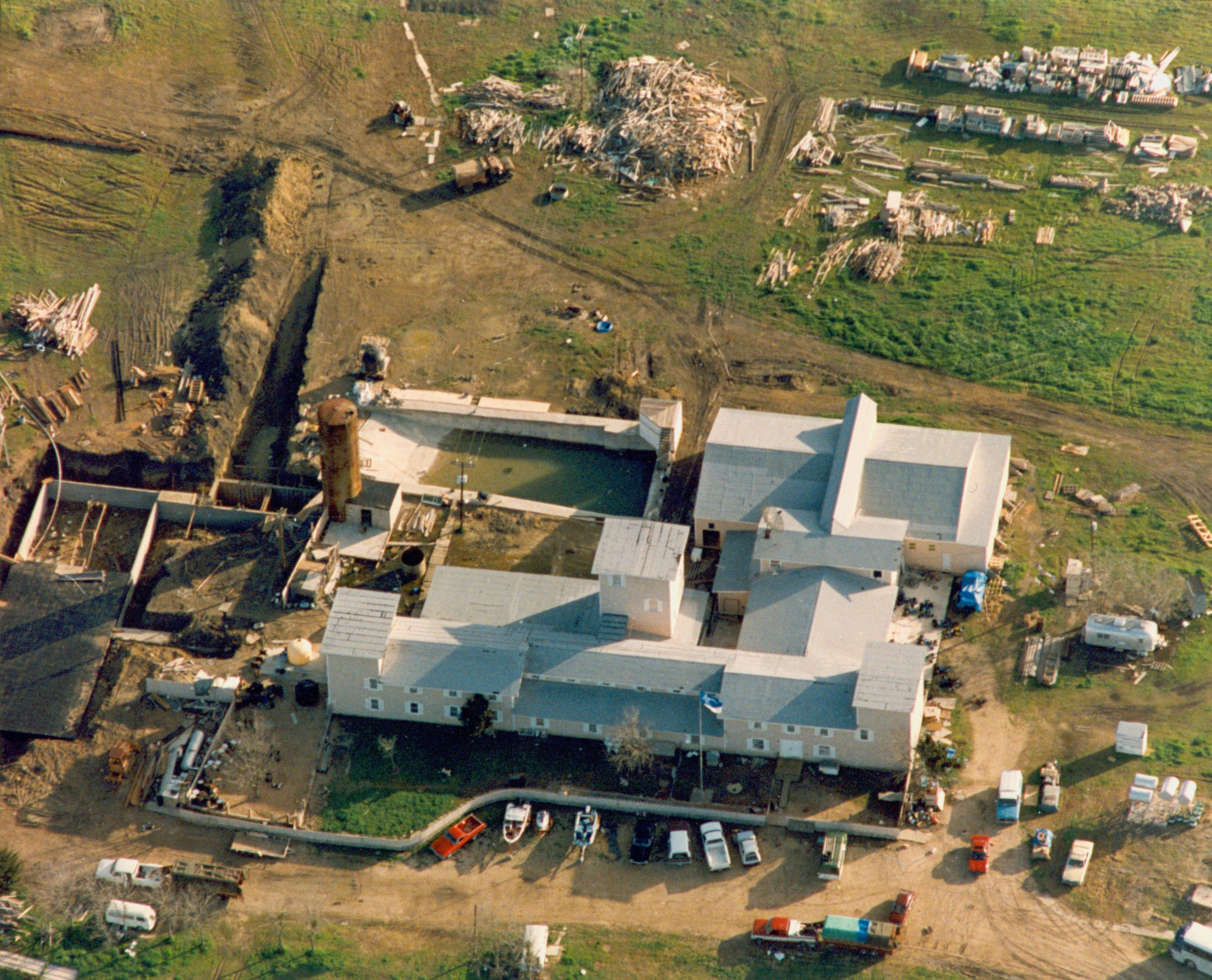 Aerial view of the Branch Davidian compound near Waco, Texas